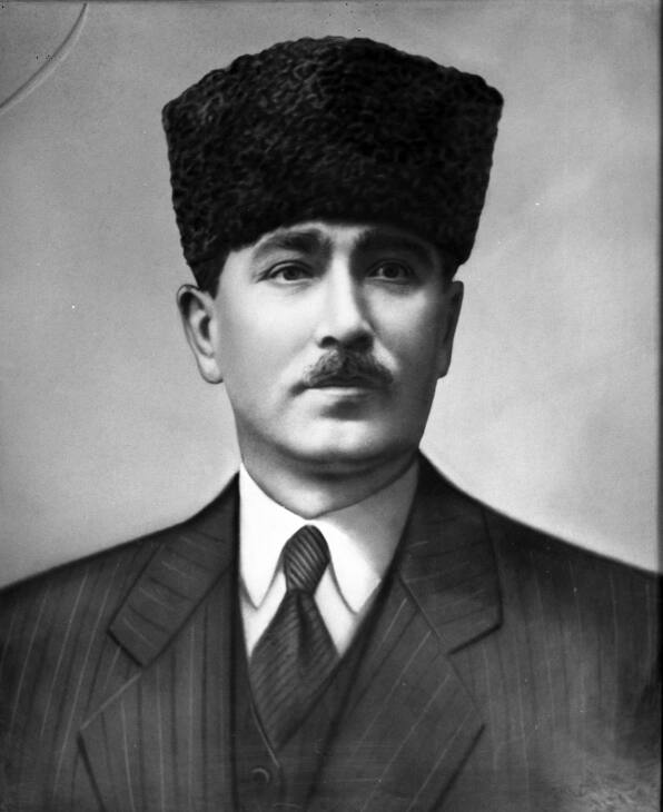 Former Prime Minister of the Republic of Turkey. Fethi Okyar